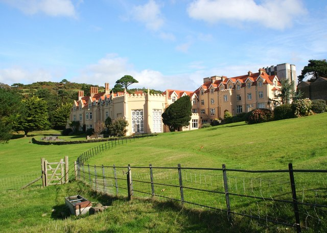 Lee Abbey